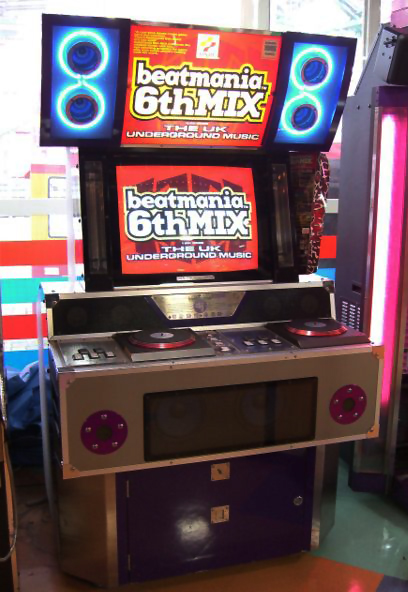 Cabinet of beatmania 6thMIX -The UK Underground Music